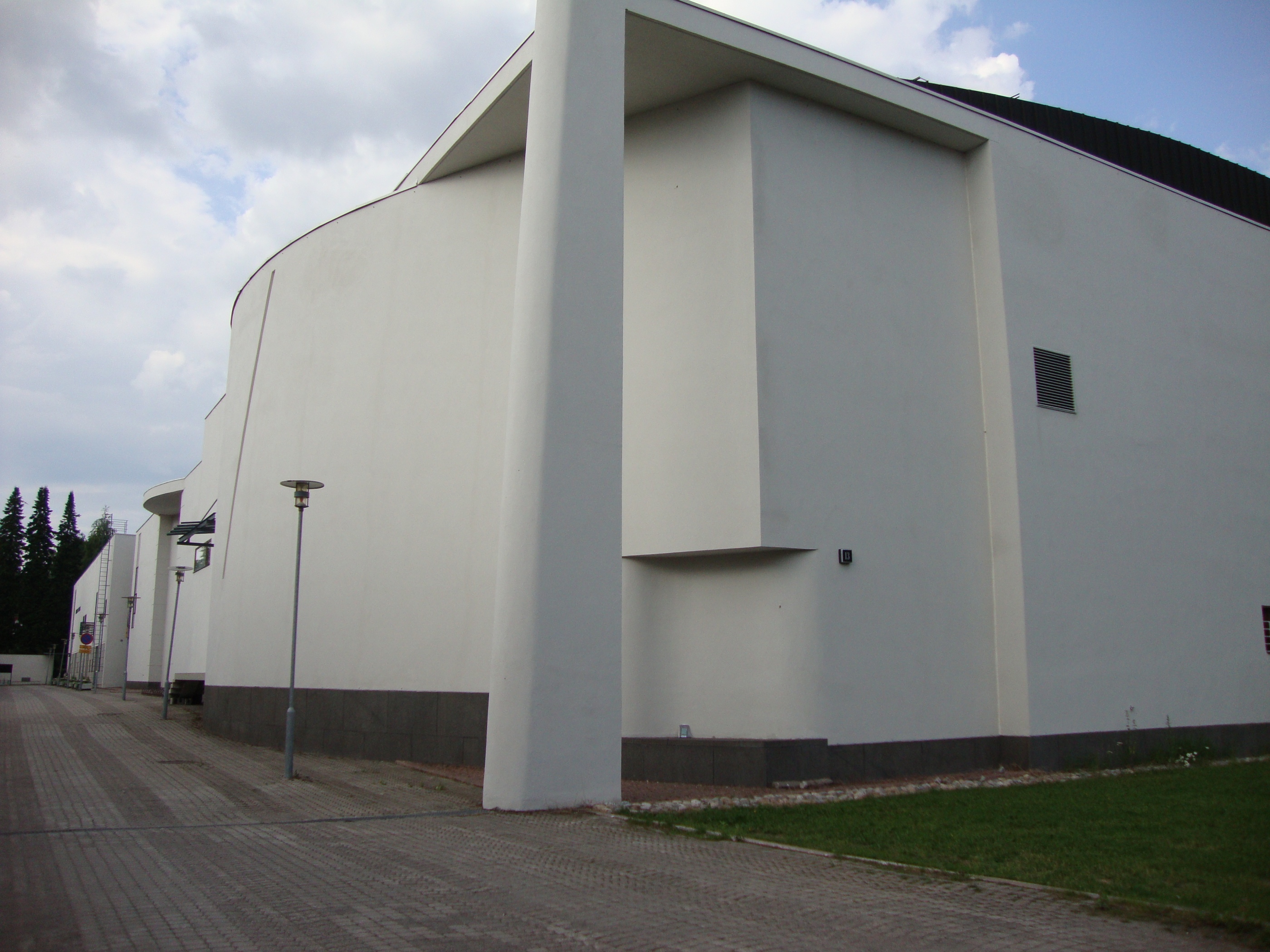 In The Culture House Poleeni of Pieksämäki you can visit the Town Library, theatre, exhibitions, concerts and/or café. Somebody left a Bookcrossing book at the corner of the library.